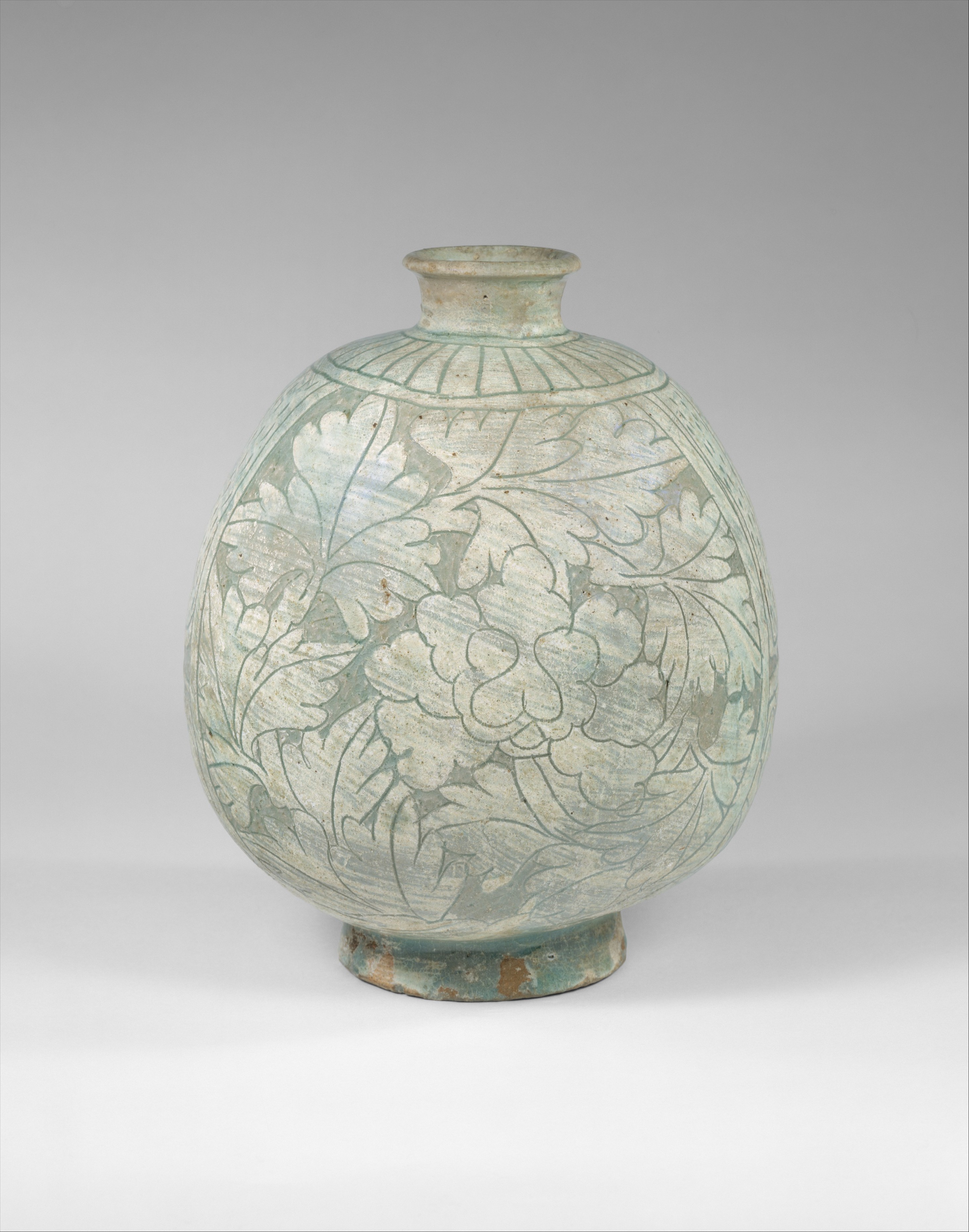 Korea; Bottle; Ceramics